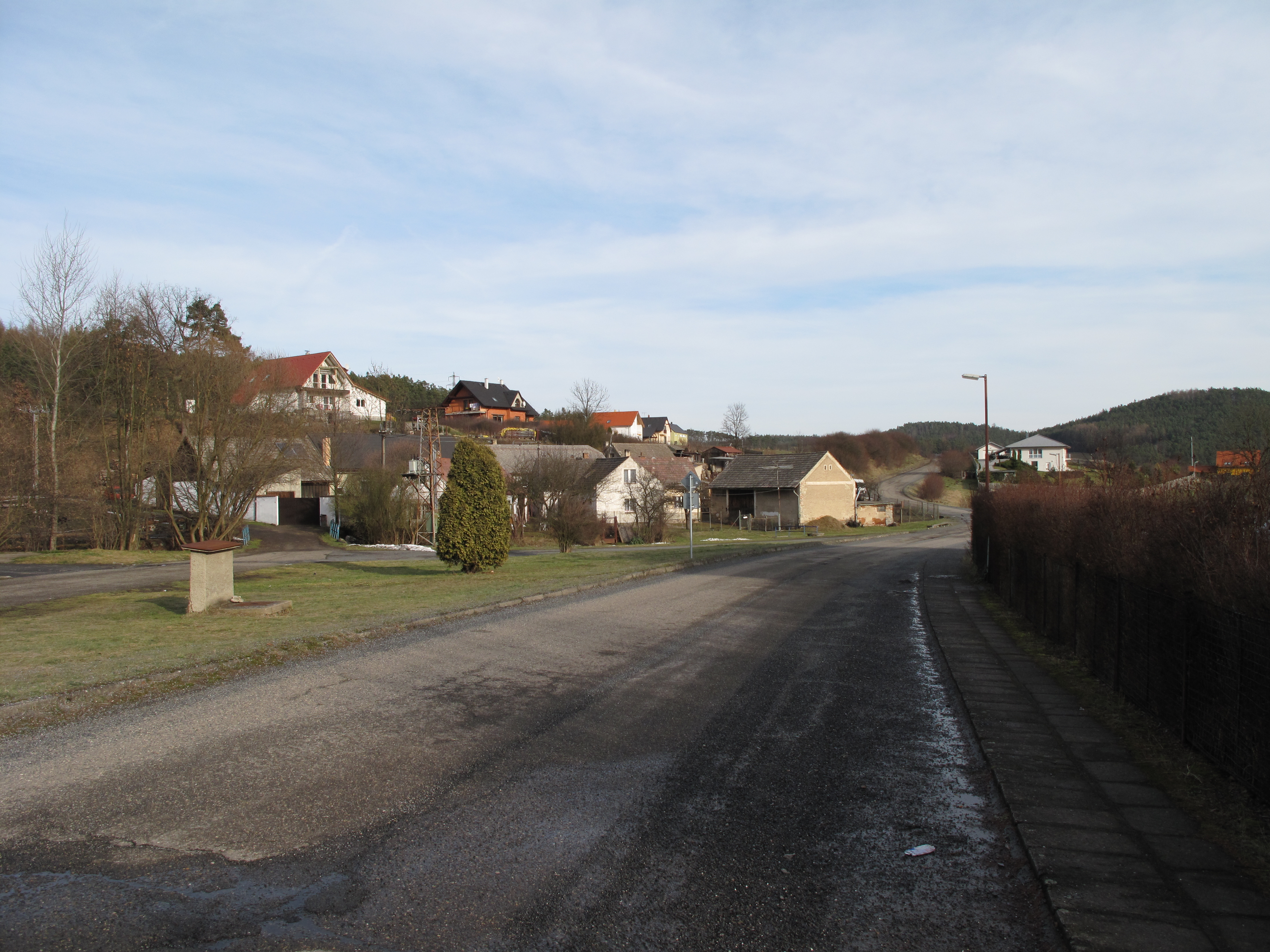 Road in Čím village, Příbram District, Czech Republic.